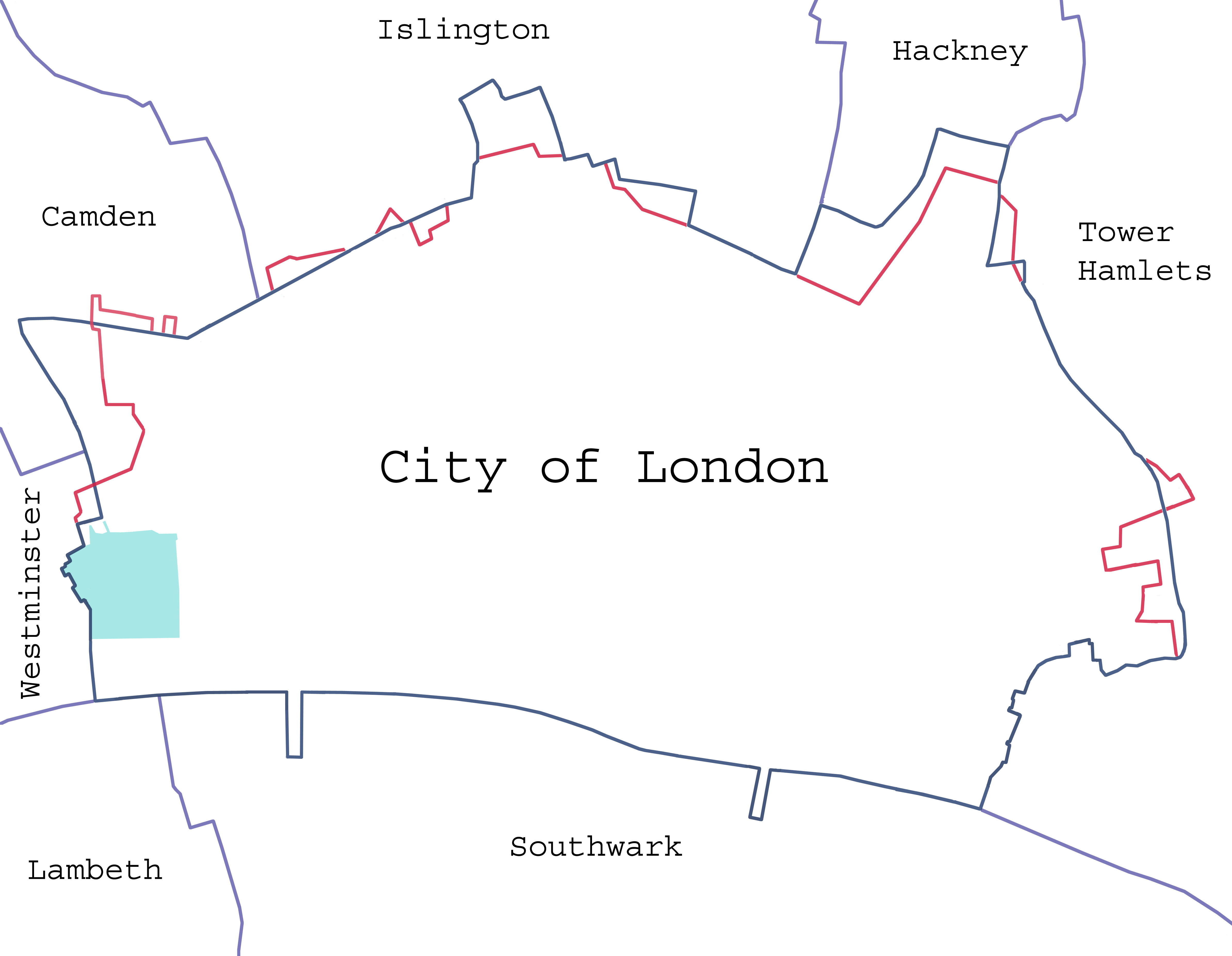 Borders of the City of London, showing surrounding London boroughs and the pre-1994 boundary (where changed). The area covered by the Inner and Middle Temple is marked.